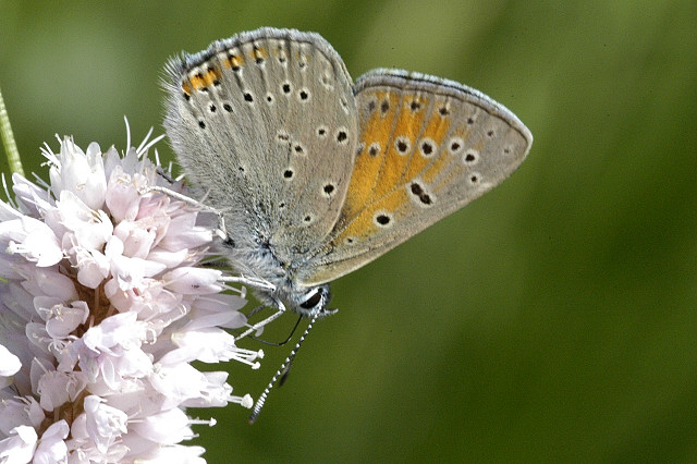 Lycaena hippothoe from Commanster, Belgian High Ardennes .